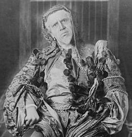 Titta Ruffo as Rigoletto, full-length portrait, facing front, seated in chair